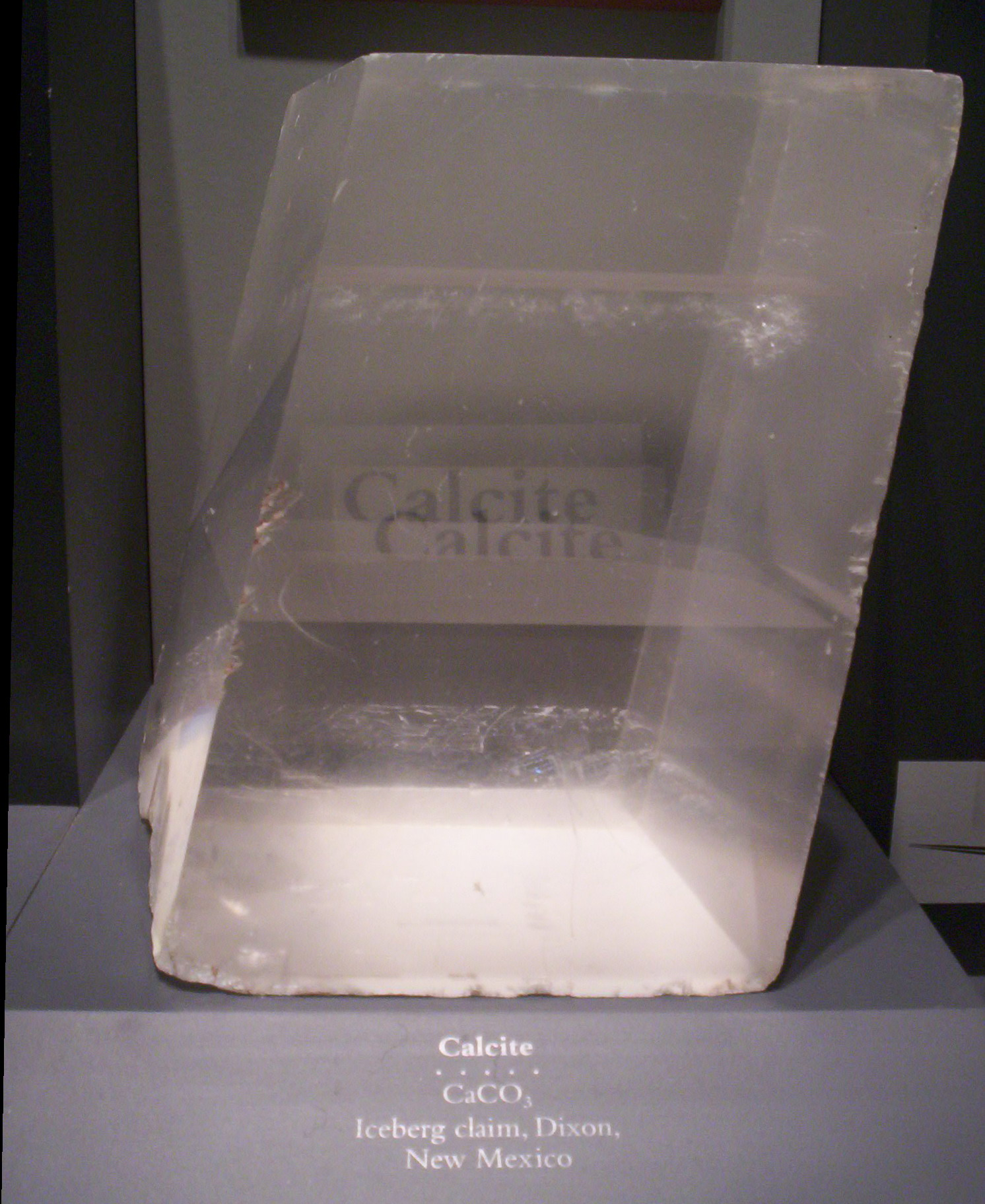 Large crystal of Calcite on display at the National Museum of Natural History in Washington, DC. Also known as Icelandic Spar